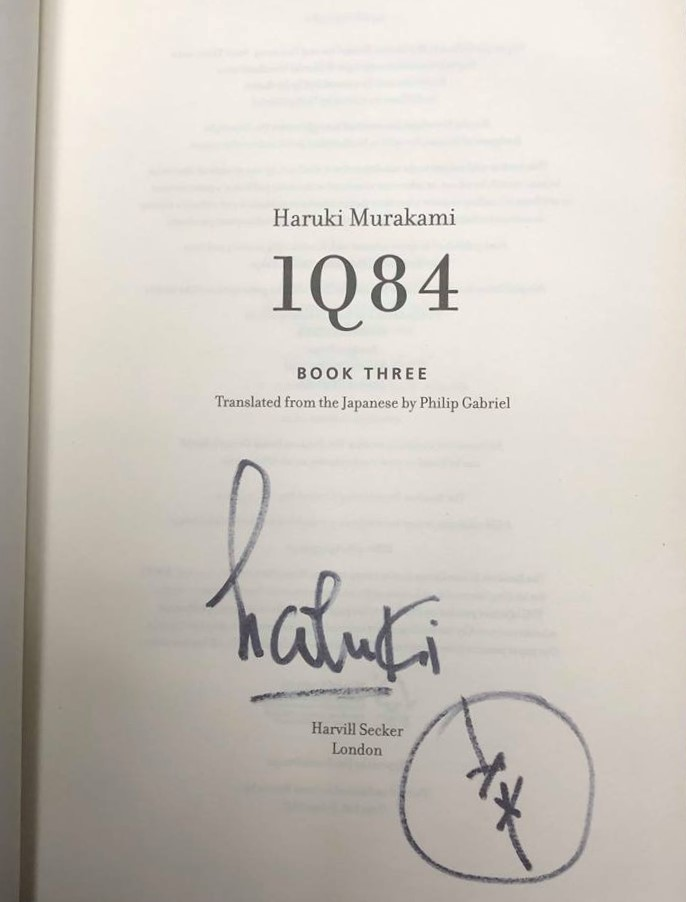 Signature of Haruki Murakami on english edition of his book "1Q84". It can be found in the Society for Culture, Art and International Cooperation Adligat in Belgrade, Serbia. Српски (ћирилица): Потписано енглеско издање књиге "1Q84" Харукија Муракамија. Налази се у Удружењу за културу, уметност и међународну сарадњу Адлигат у Београду.